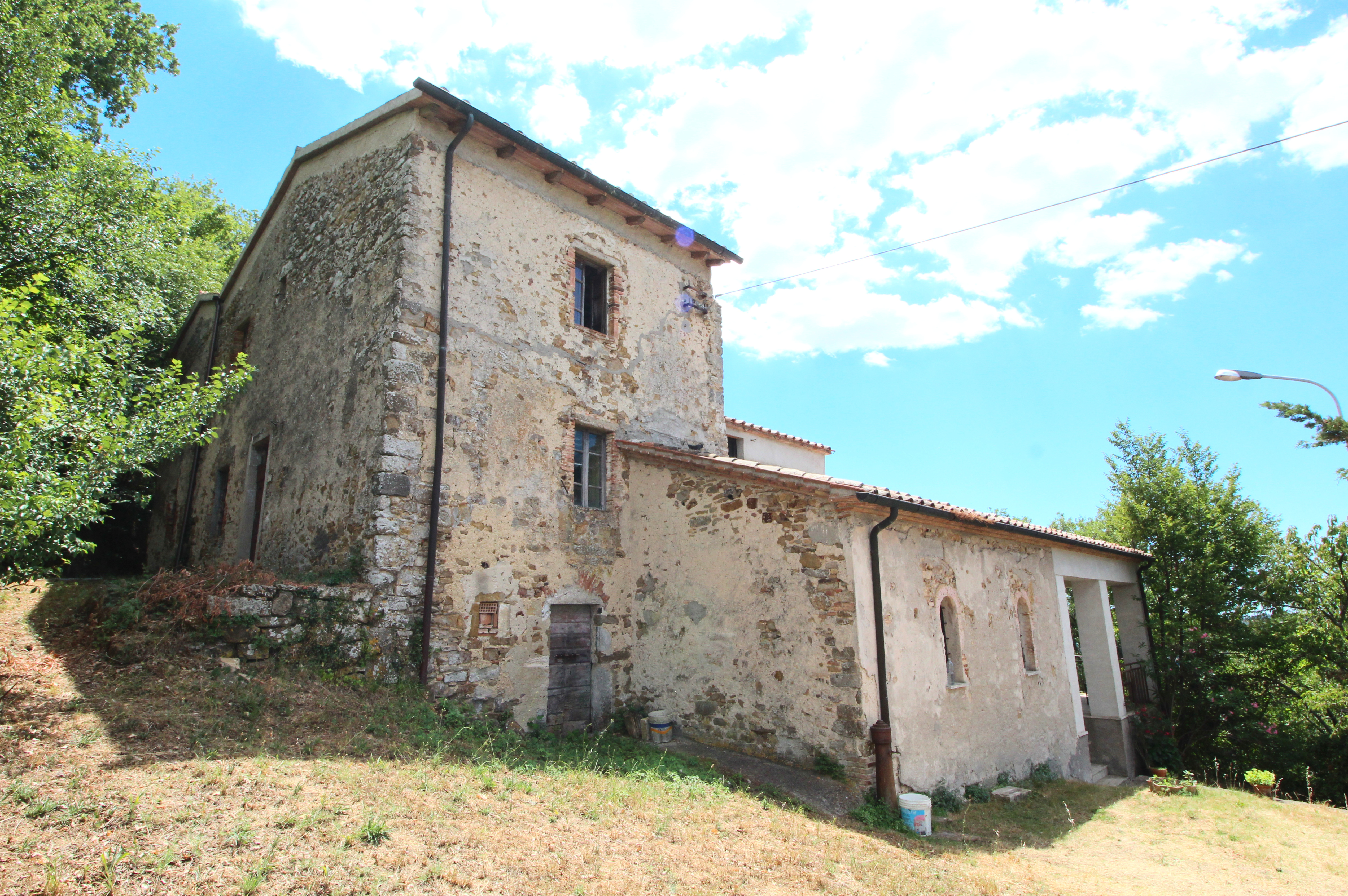 Church Sant'Andrea, in Montebuono (Appalto), hamlet of Sorano, Province of Grosseto, Tuscany, Italy